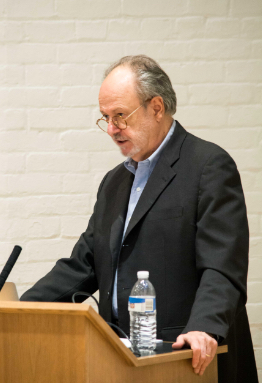 Anson Rabinbach speaking at Lehigh University's Berman Center for Jewish Studies in 2018